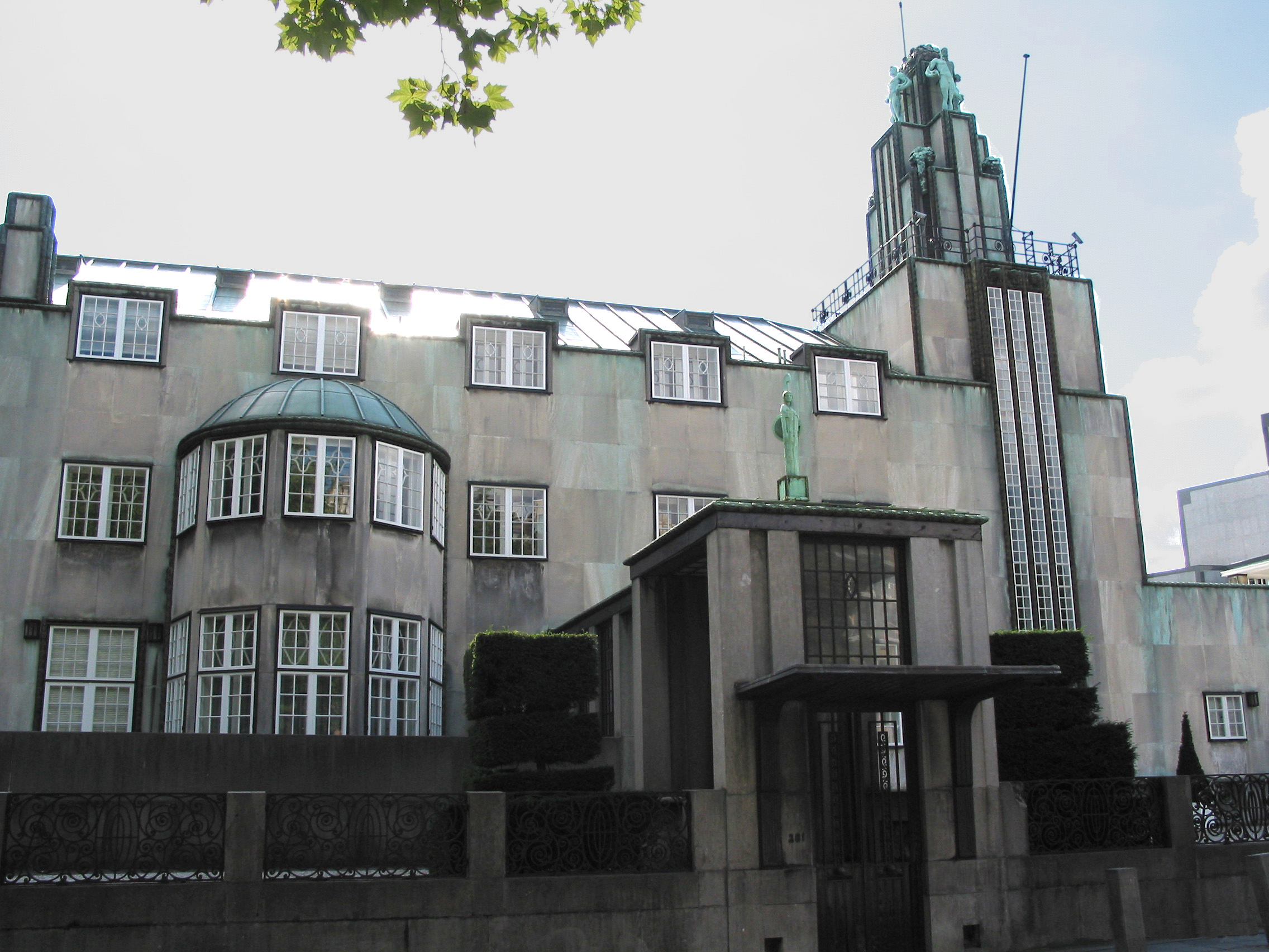 Side view of Stoclet Palace from avenue de Tervuren, Brussels, Belgium (1905/1911 - Architect: Joseph Hoffmann)